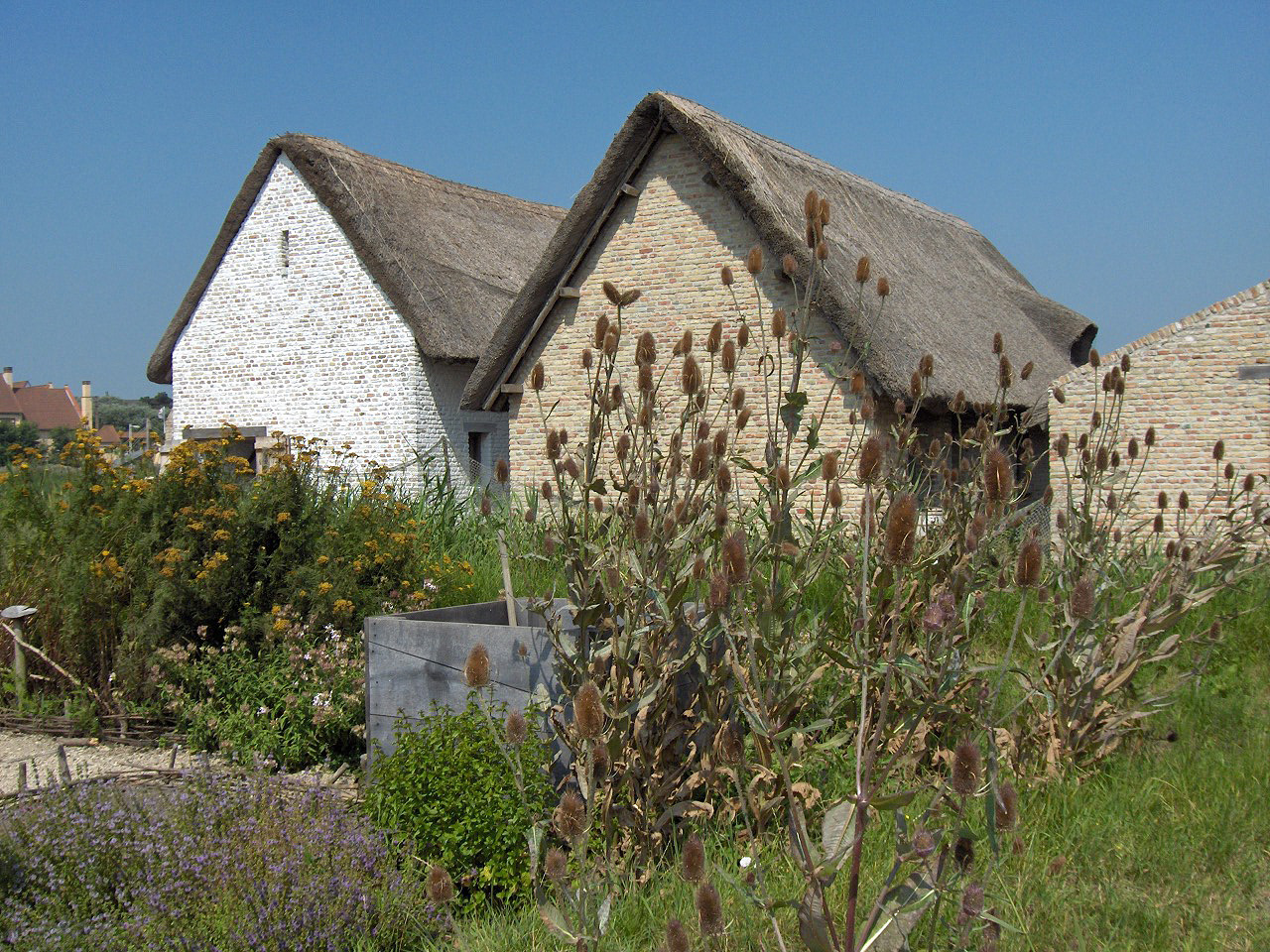 Reconstruction of fisherman houses at the archeoligical site of Walraversijde, ca. 1465 ; near Oostende, Belgium